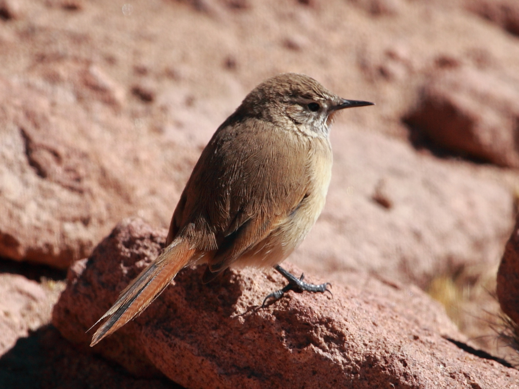 Cordilleran canastero at Rio Machuca, San Pedro de Atacama, Chile